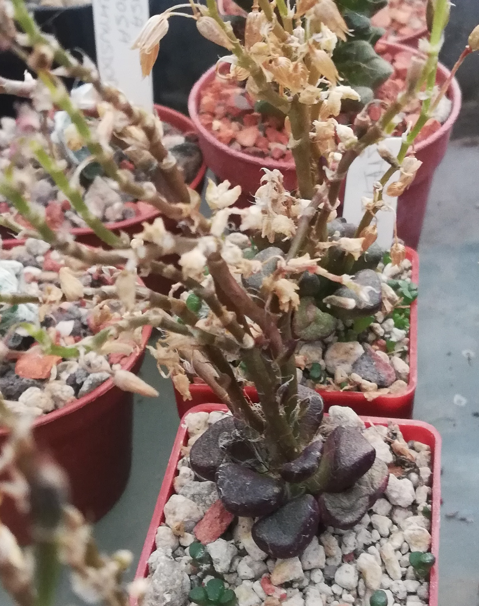 Anacampseros retusa, Prague University Gardens